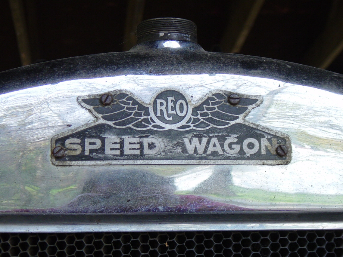 Badge and part of the radiator grille on an REO Speedwagon at the Jack Daniel's Distillery, Lynchburg, Tennessee. Photograph taken during November 2004.